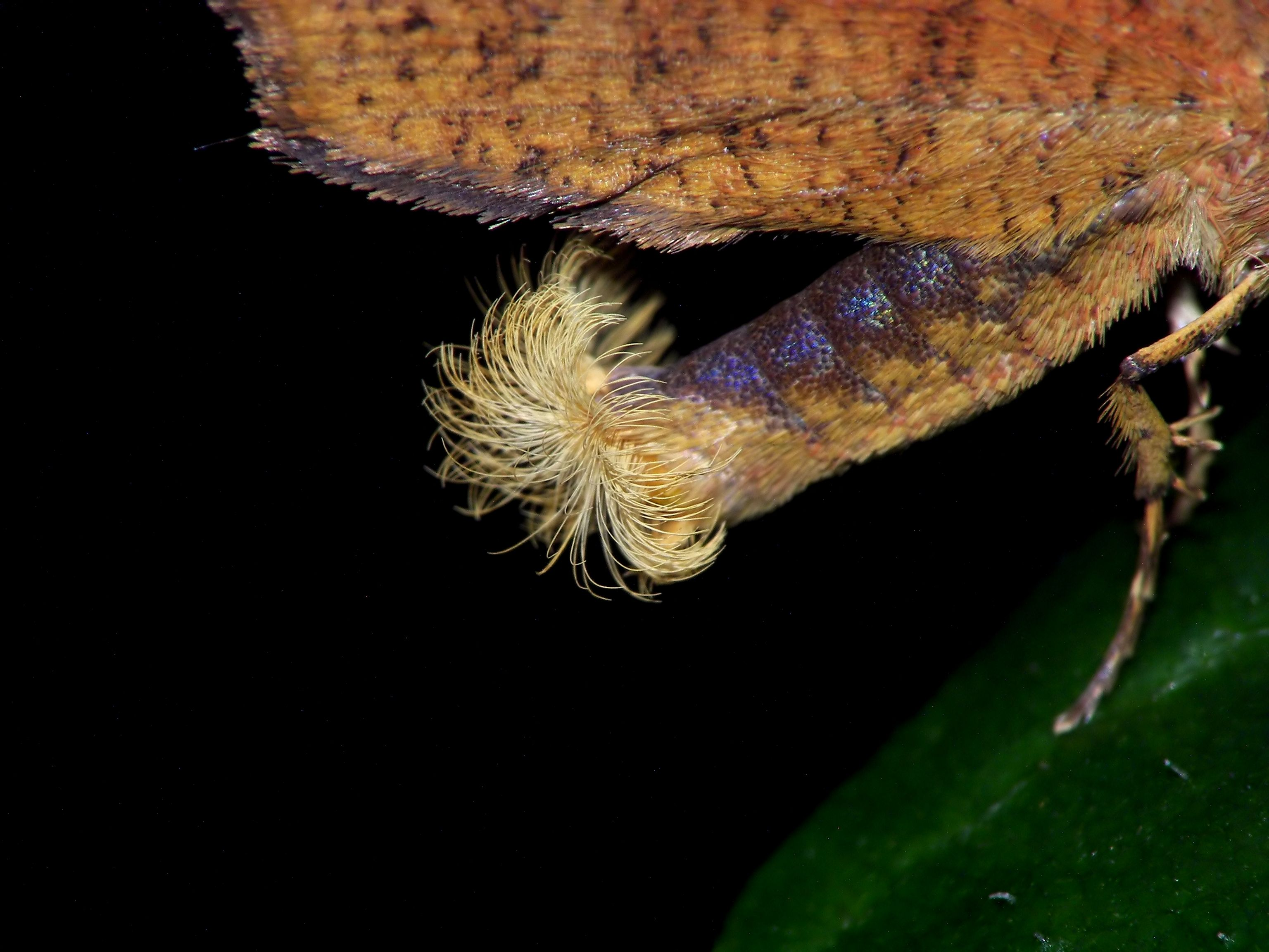 Species: Pterodecta felderiLocation: Mui Tsz Lam, New Territories, Hong Kong